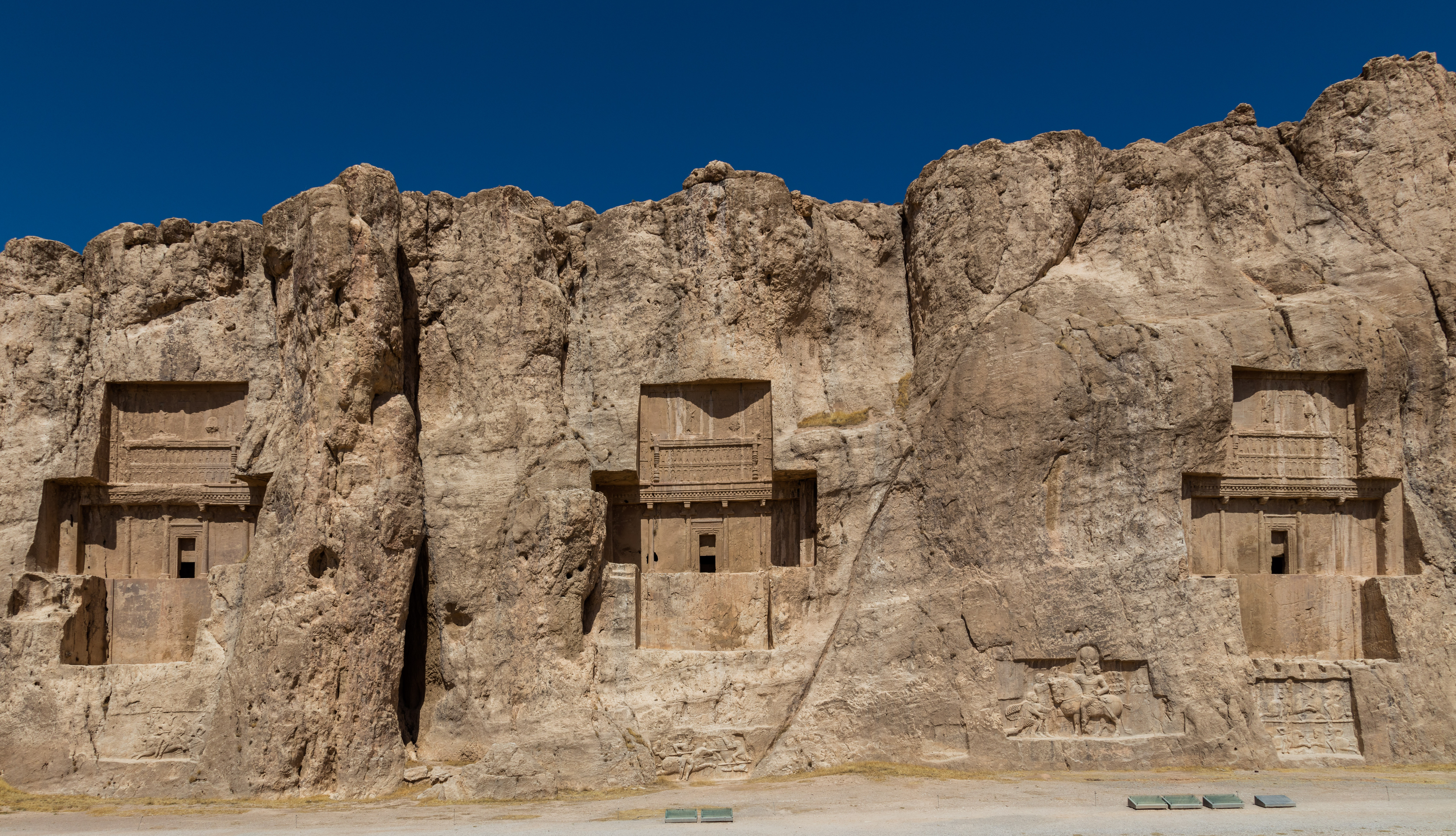 Naghsh-e rostam, Iran